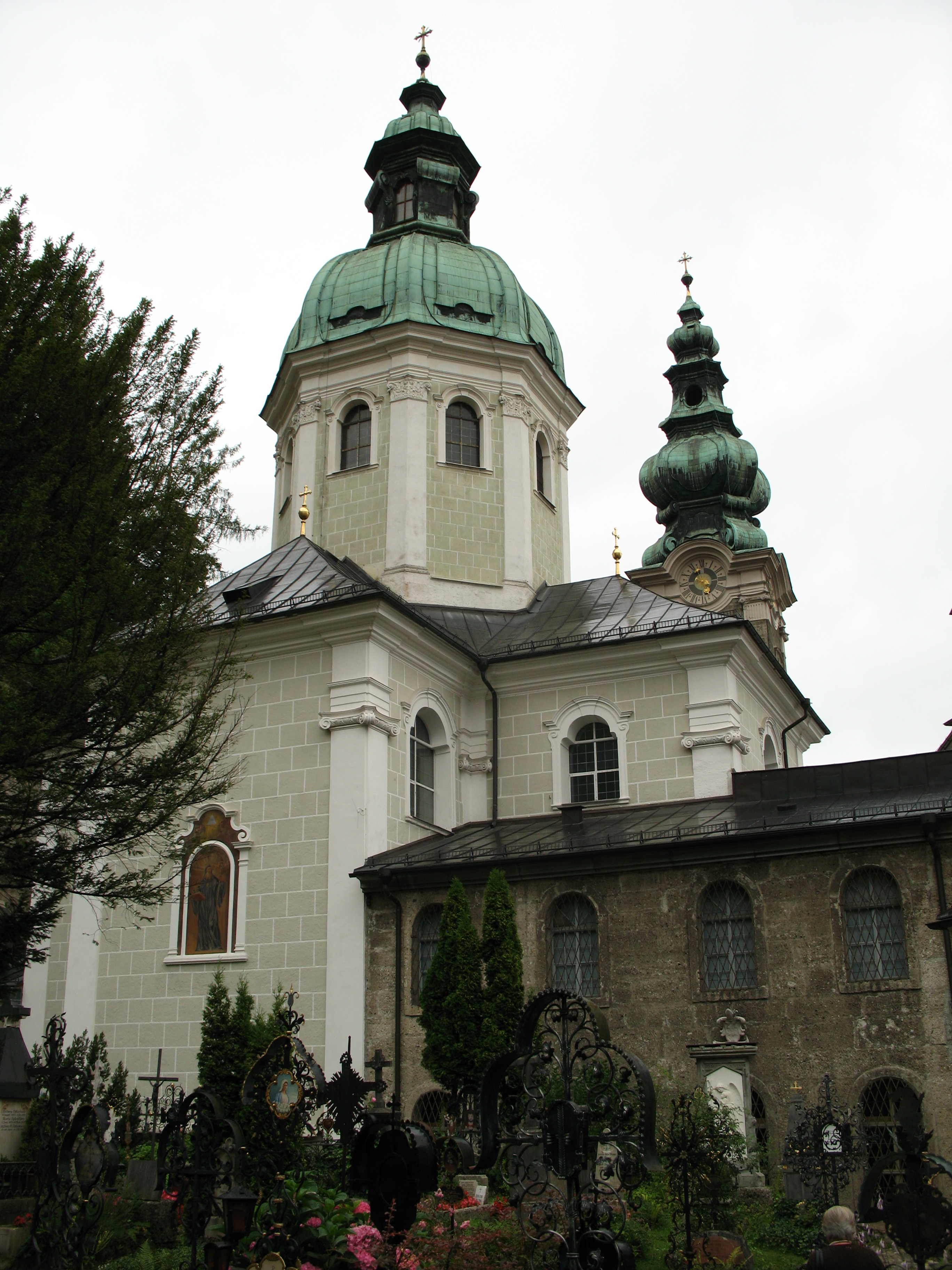 Abbey Church of St. Peter, Salzburg, Austria